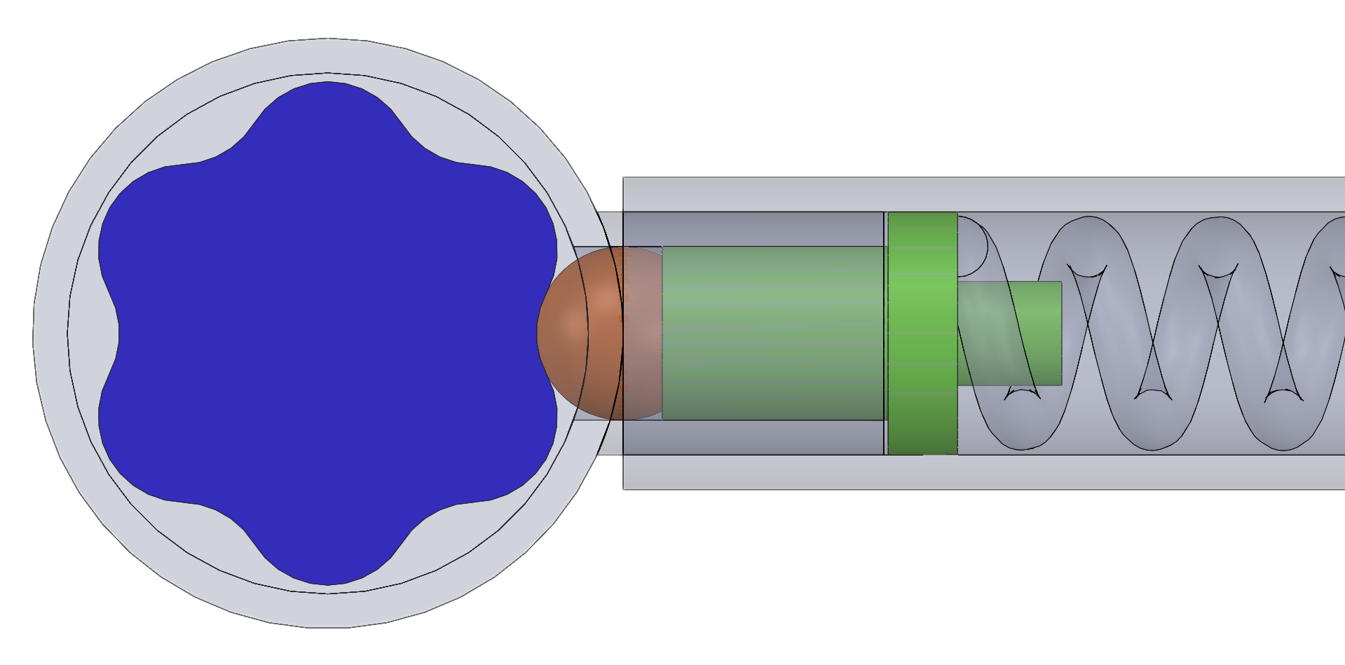 A very simplified view of the workings of a slipper torque wrench.